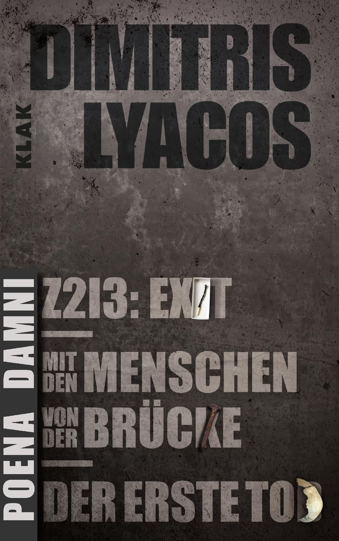 Front cover image of Dimitris Lyacos's Poena Damni Trilogy, German Edition.